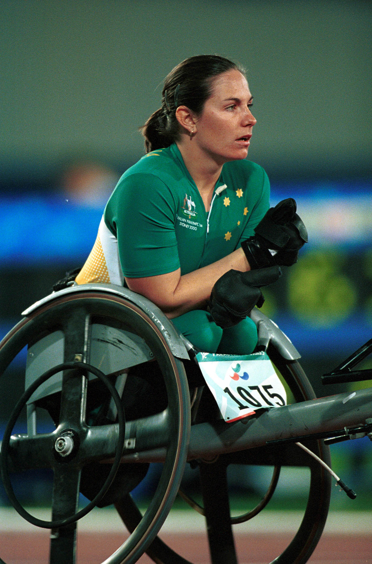 Australian wheelchair racer Christie Skelton shown waiting before the 100 m semi final wheelchair race event at the 2000 Sydney Paralympic Games, Day 02